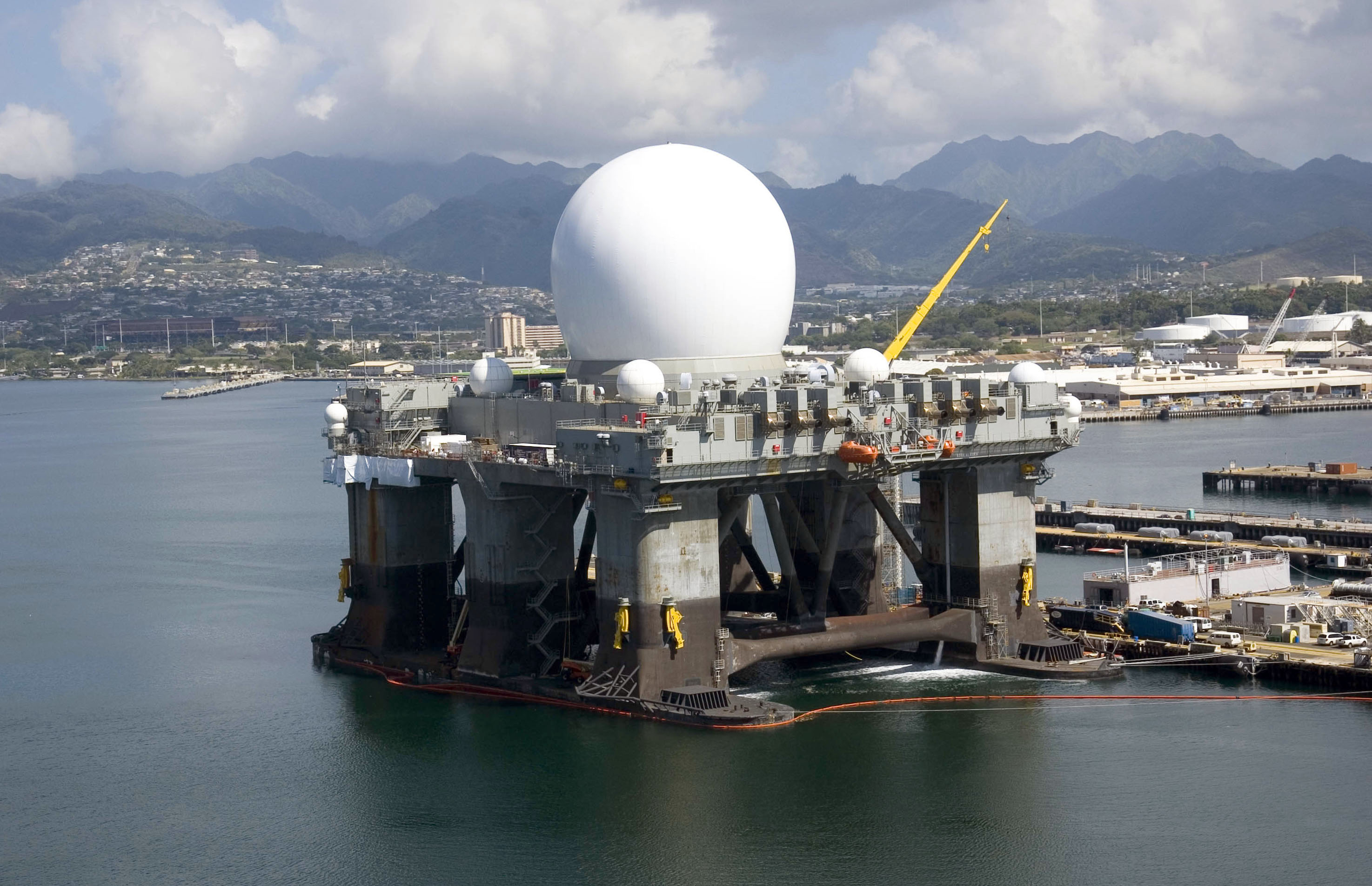 Pearl Harbor, Hawaii (Jan. 31, 2006) - The Sea-Based Radar(SBX) successfully completed its 15,000-mile journey from Texas to Pearl Harbor aboard the heavy lift vessel M/V Blue Marlin. SBX will be undergoing minor modifications at Pearl Harbor Naval Shipyard prior to departing for Adak, Alaska, later this spring. U.S. Navy photo by Photographer's Mate 2nd Class Dennis C. Cantrell (RELEASED)